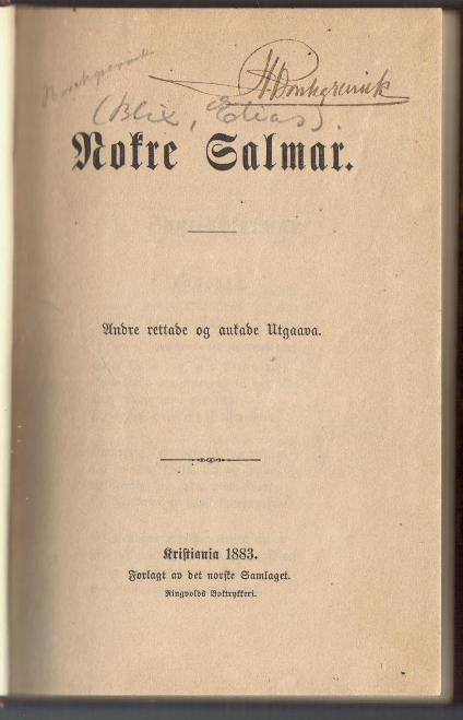 Title page of a norwegian psalm book by Elias Blix